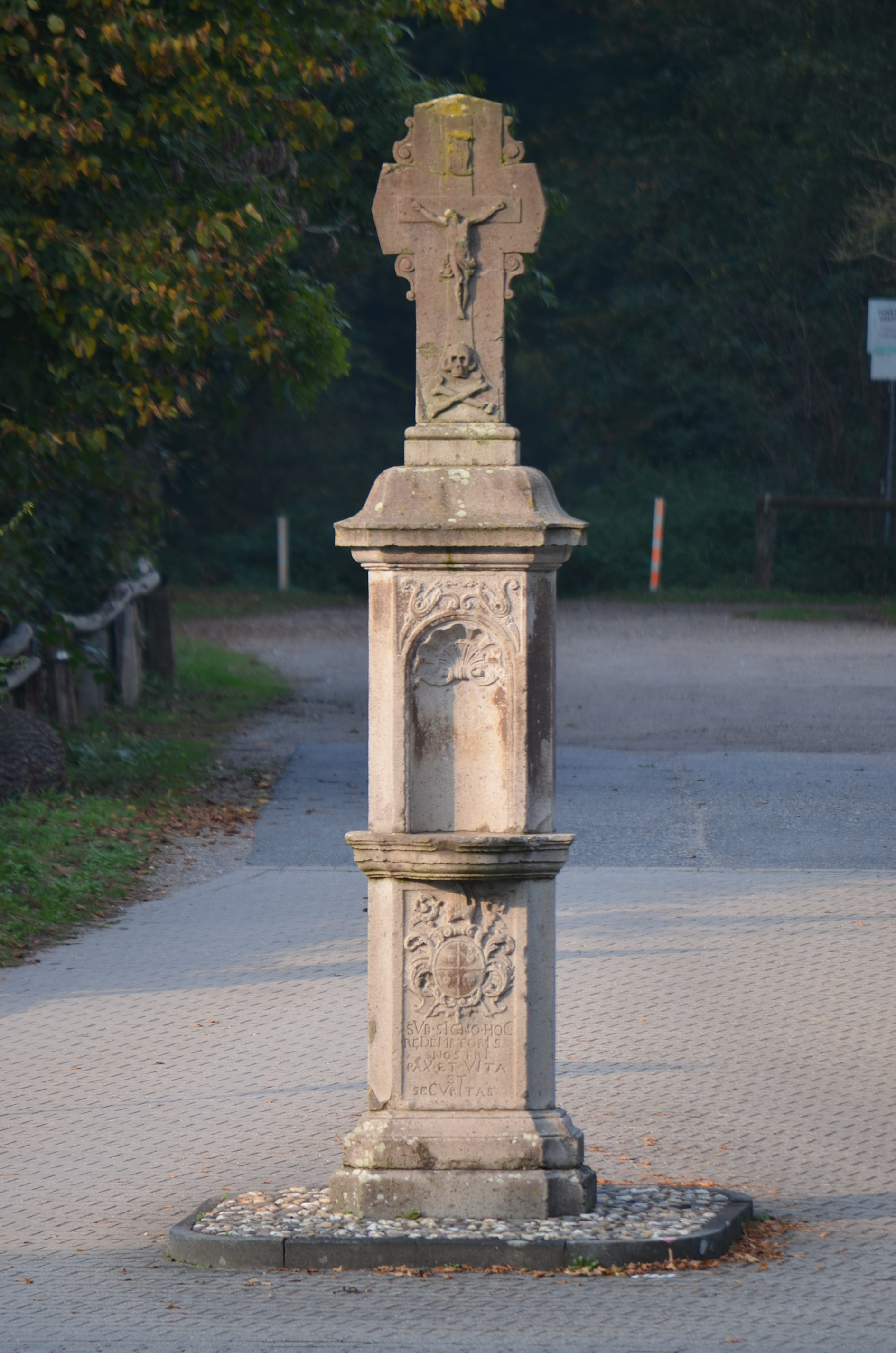 Kamp-Lintfort (North Rhine-Westphalia, Germany) – Kamp Hill – immunity cross This image shows a heritage building in Germany, located in the North Rhine-Westphalian city Kamp-Lintfort (no. 16). This photograph was taken with a Nikon D7000